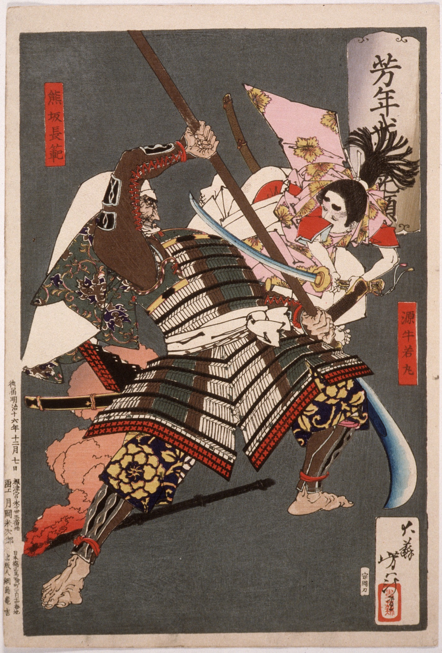 Japan, 1883, 12th month Series: Yoshitoshi's Warriors Trembling with Courage Prints; woodcuts Color woodblock print Herbert R. Cole Collection (M.84.31.95) Japanese Art